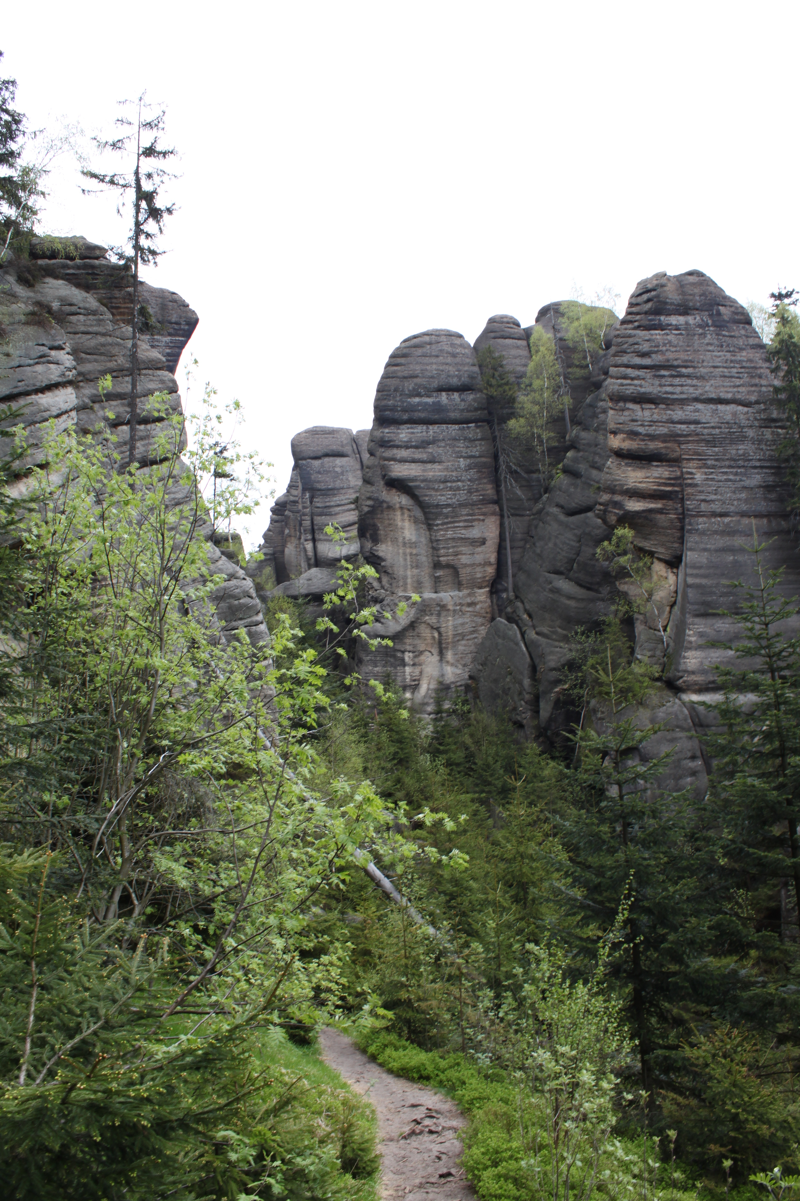 Kovářova rokle, Broumovské stěny, Czech Republic